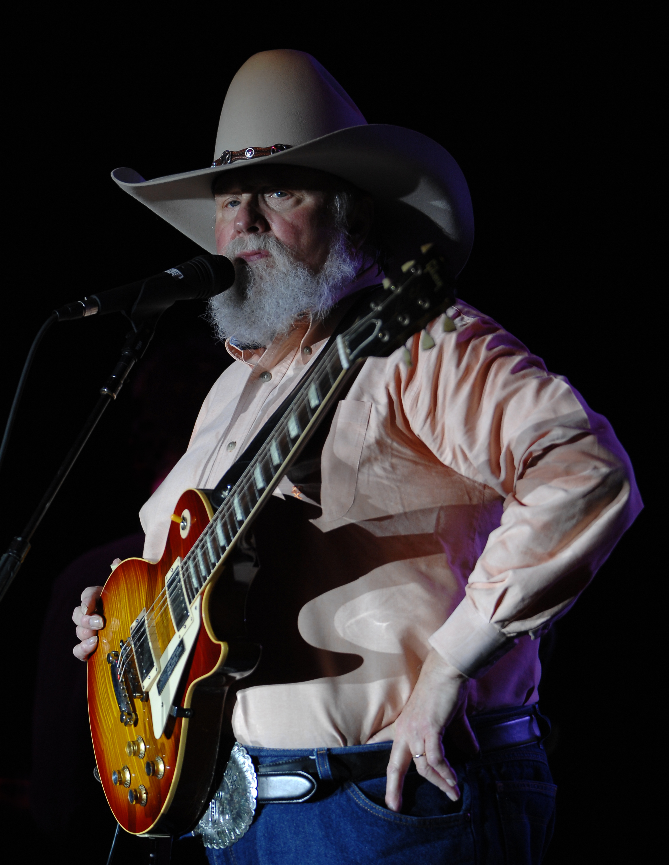 Charlie Daniels at Riverfront park, Louisville, Kentucky. His performance was part of the Derby Festival events leading up to the Kentucky Derby.